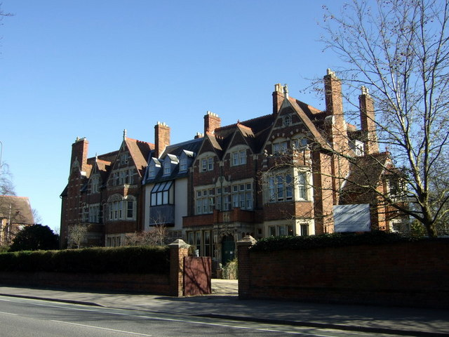 Wychwood School for Girls. These two houses facing Banbury Road, plus two more round the corner in Bardwell Road, constitute an independent school for middle-class gals that originated in 1897 and acquired this site in 1918. The school was named after the forest (see 43762) surrounding the home of one of the lady founders, and the emphasis was, and is, on democratic self-government complete with a school council. In 1960 the two buildings were joined together in an unsightly fashion that was once used as an illustration of architectural faux-pas.